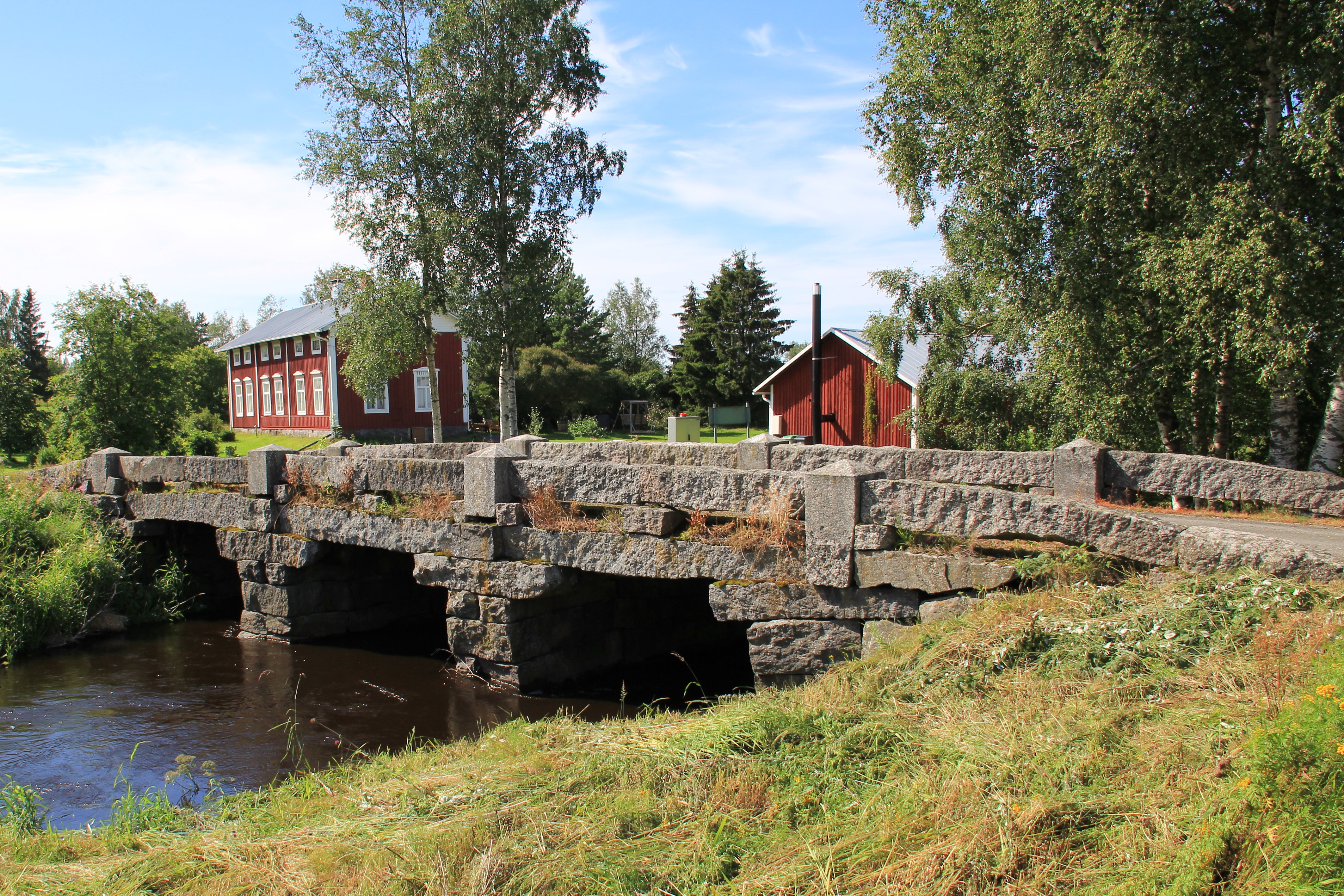 Harrström bridge, Harrström, Korsnäs, Finland. -Seen from southeast.